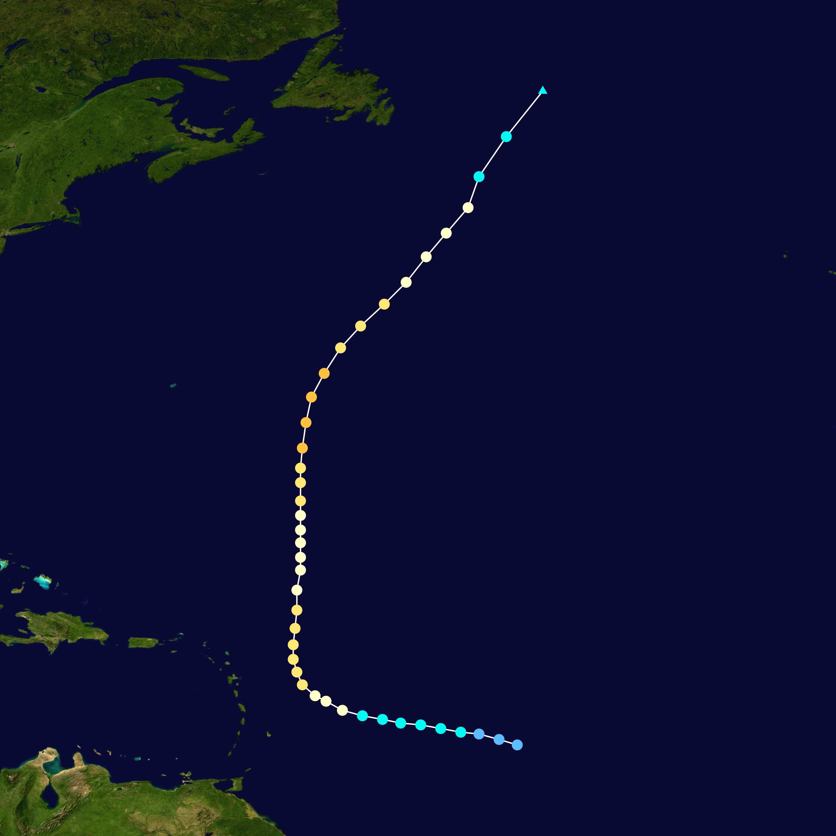 Track map of Hurricane Gustav of the 1990 Atlantic hurricane season. The points show the location of the storm at 6-hour intervals. The colour represents the storm's maximum sustained wind speeds as classified in the Saffir–Simpson scale (see below), and the shape of the data points represent the nature of the storm, according to the legend below. Saffir–Simpson scale Tropical depression≤38 mph≤62 km/h Category 3111–129 mph178–208 km/h Tropical storm39–73 mph63–118 km/h Category 4130–156 mph209–251 km/h Category 174–95 mph119–153 km/h Category 5≥157 mph≥252 km/h Category 296–110 mph154–177 km/h Unknown Storm type Tropical cyclone Subtropical cyclone Extratropical cyclone / Remnant low / Tropical disturbance / Monsoon depression